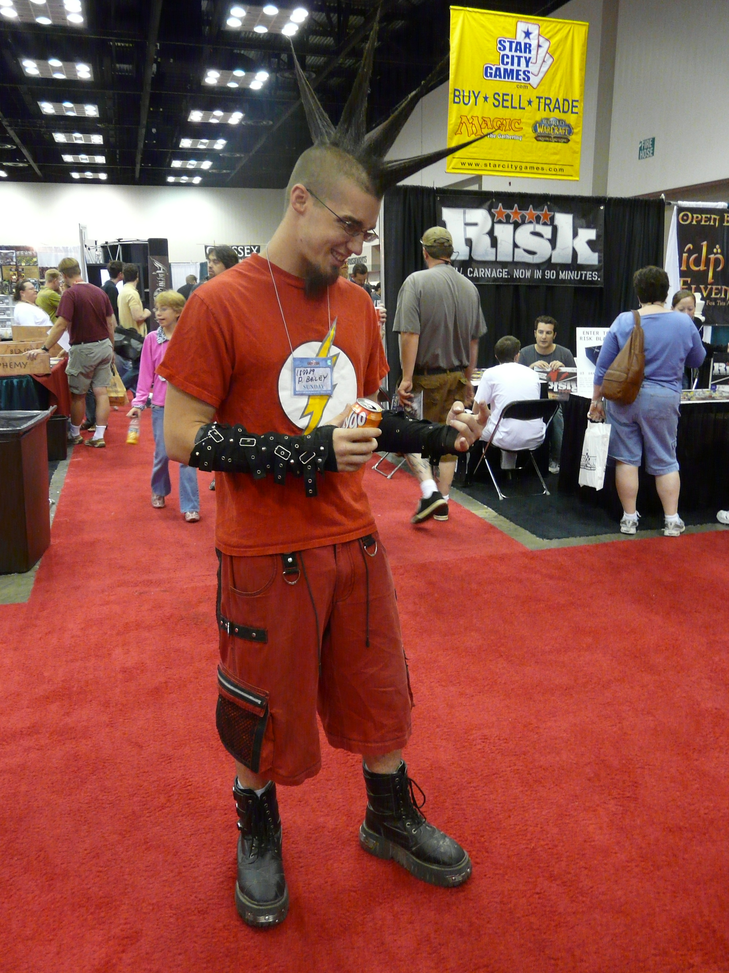 Picture of Gen Con Indy 2008 in Indianapolis, Indiana, USA.